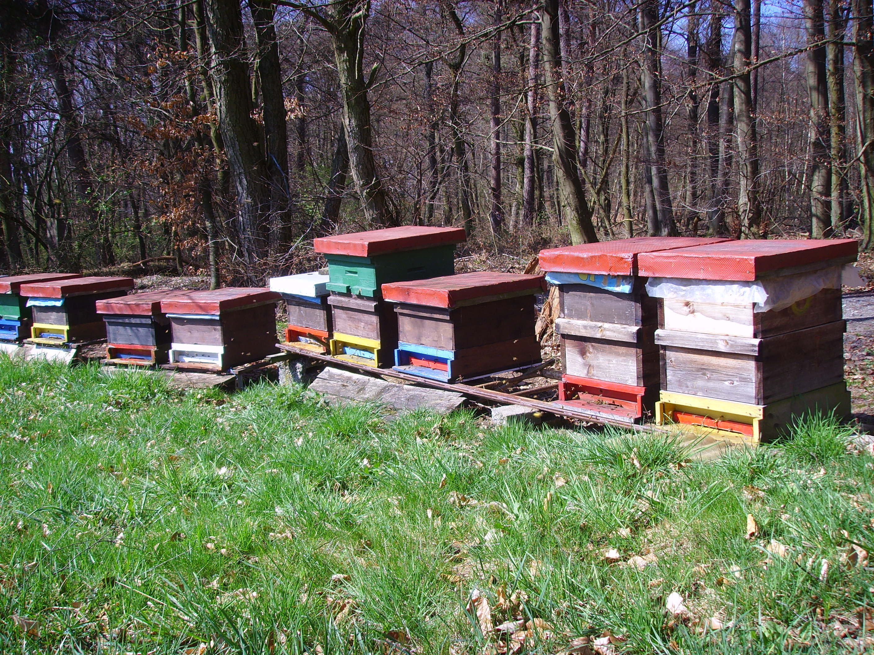 Beehives east of Wehrheim/Taunus near Frankfurt am Main, Germany